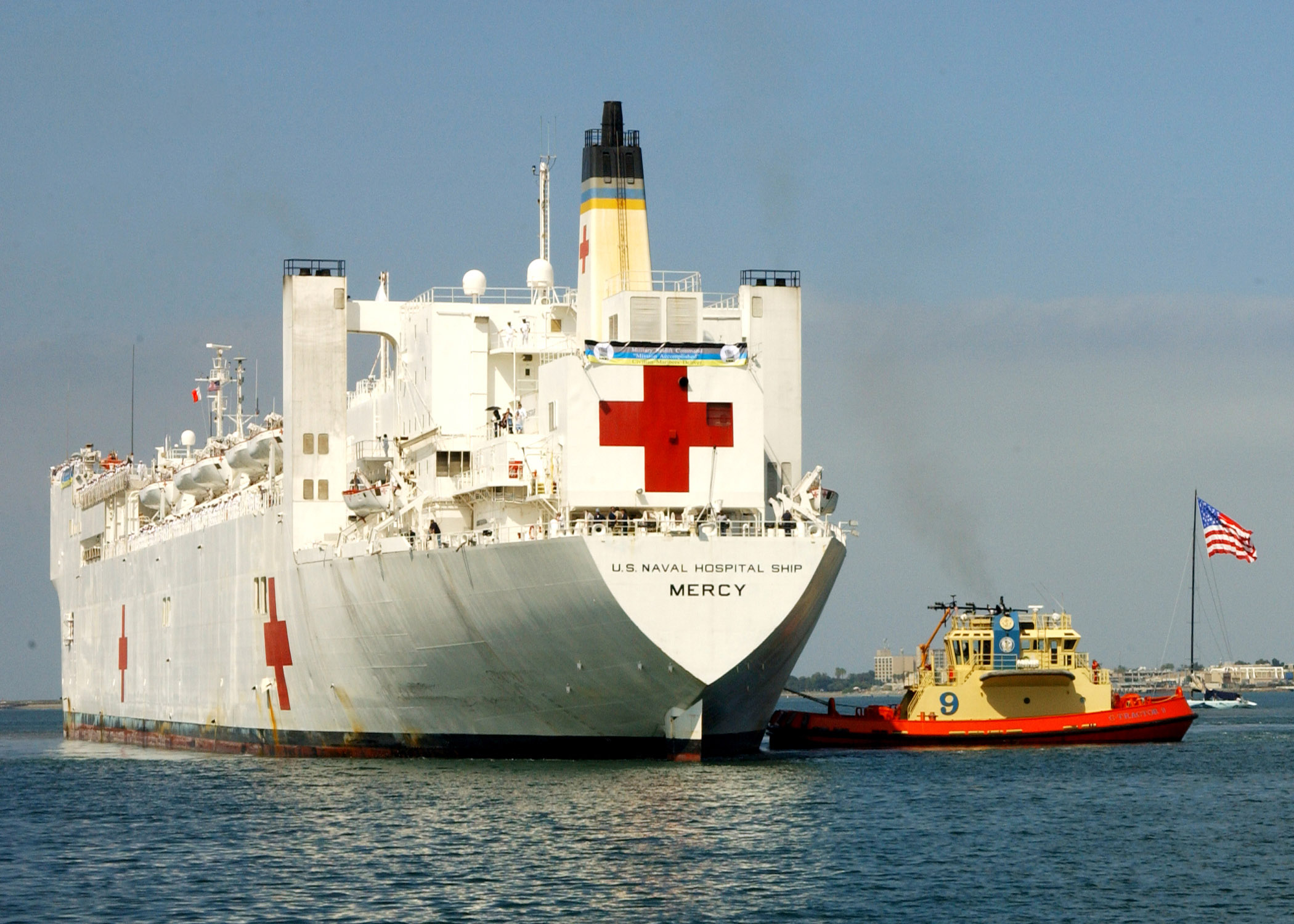 San Diego, Calif. (June 8, 2005) - A tugboat assist the Military Sealift Command (MSC) hospital ship USNS Mercy (T-AH 19) as it prepares to moor at Naval Station San Diego. Mercy is returning from a five-month deployment in support of tsunami relief efforts and humanitarian aide missions to various Southeast Asia nations. U.S. Navy photo by Photographer's Mate 2nd Class Scott Taylor (RELEASED)